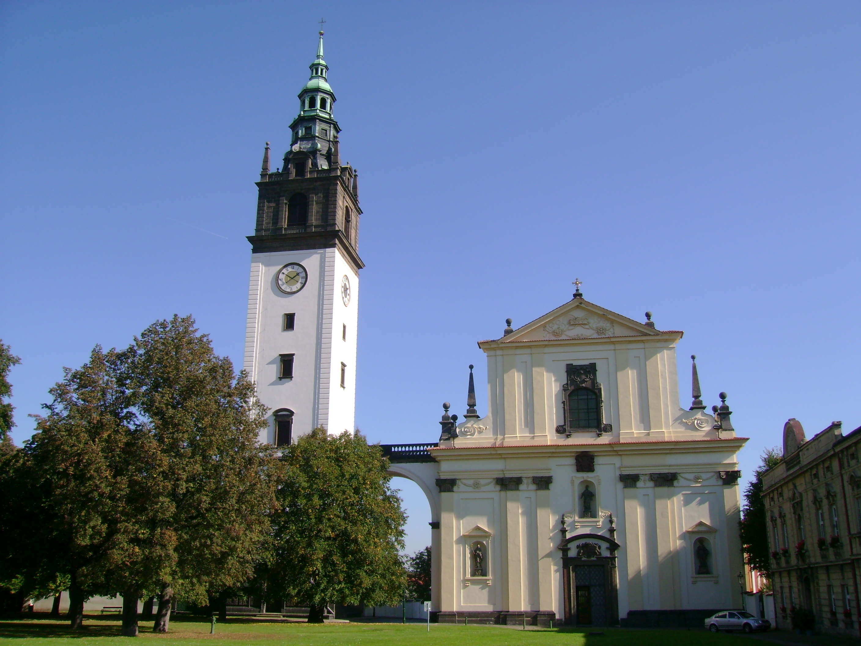 Cathedral of Saint Stephen in Litoměřice, the Czech Republic.